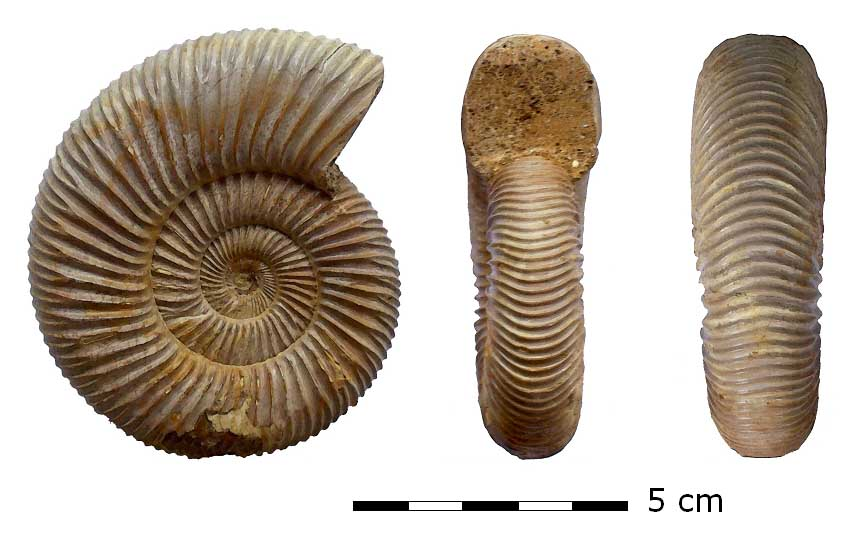 Specimen of Perisphinctes (Prosososphinctes) virguloides (Waagen) from Madagascar.